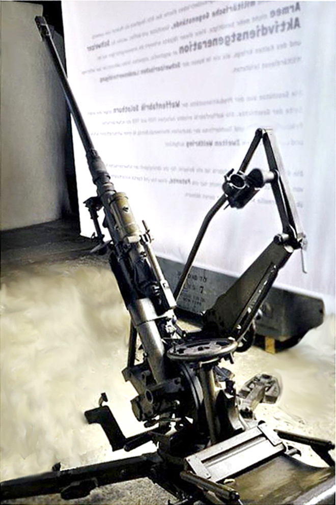 Solo Tb S18-1100 AA-Mount